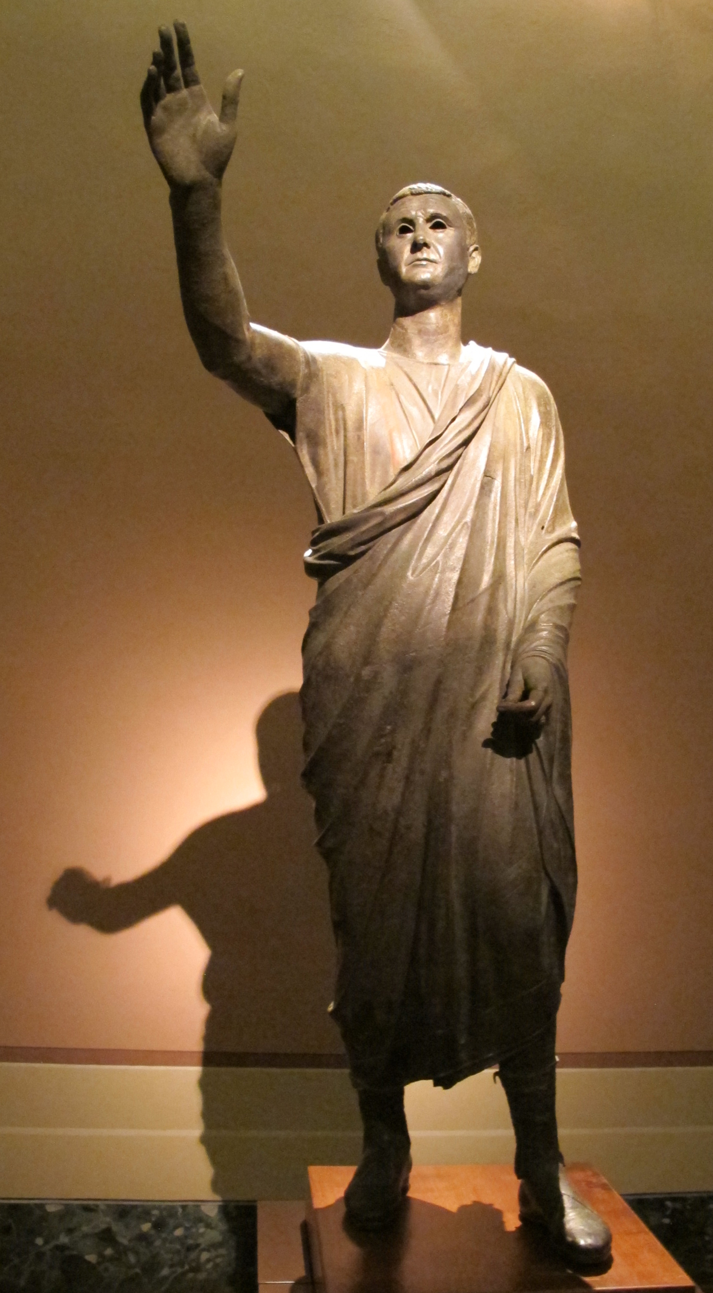 Aule Metele is a Romano-Etruscan work in the Roman style and depicts an Etruscan man wearing a short Roman toga and footwear. His right arm is raised to indicate that he is an orator addressing the public. An inscription on the hem of his toga gives his name and parentage.